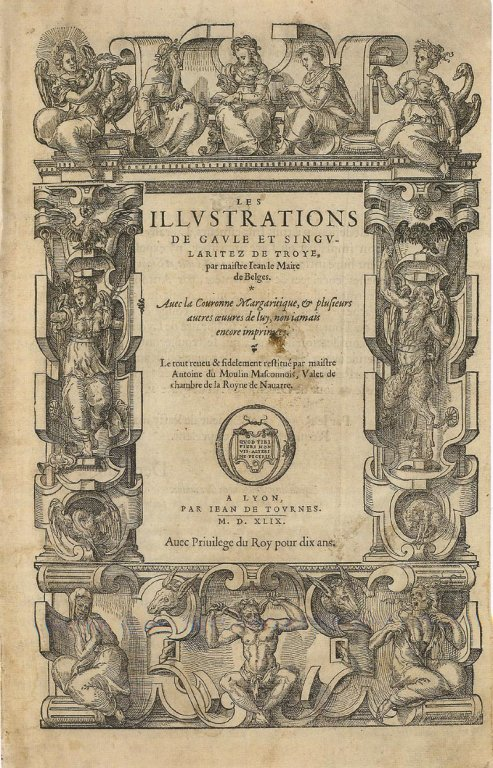 Jean de Tournes, Les illustrations de Gaule et singularitez de Troye. Lyon, 1549.